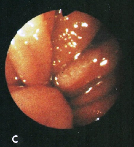 Cameron lesion rubbing gastric fold opposite